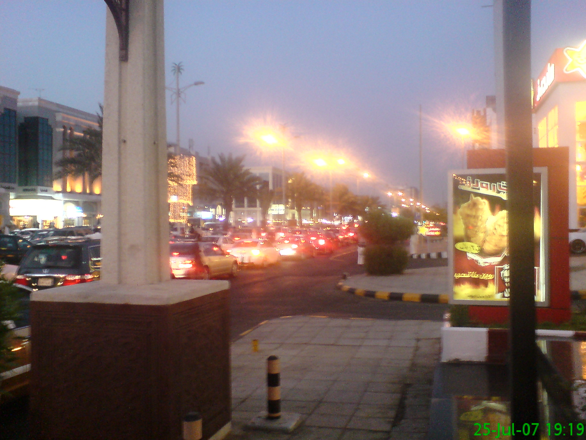 Happy Fans closing Tahlia St. , following the winning over Japan in 2007 AFC Asian Cup.